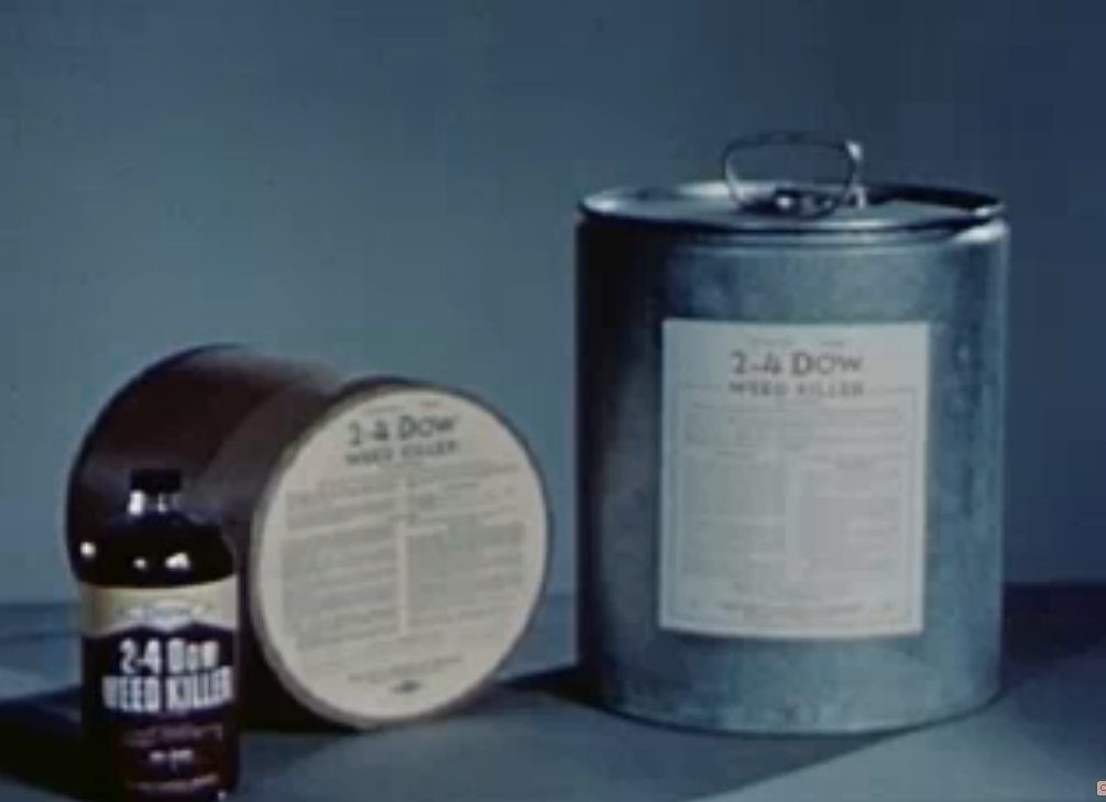 Screen capture from the 2:38 mark showing various containers of 2-4 Dow weed killer. Sharpened a bit using GIMP.